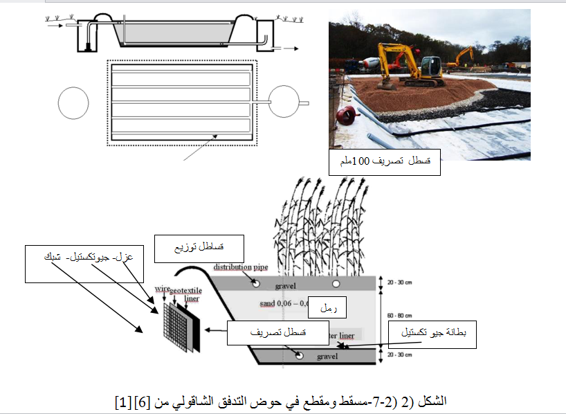 مسقط ومقطع في حوض التدفق الشاقوليمن (1) (6)